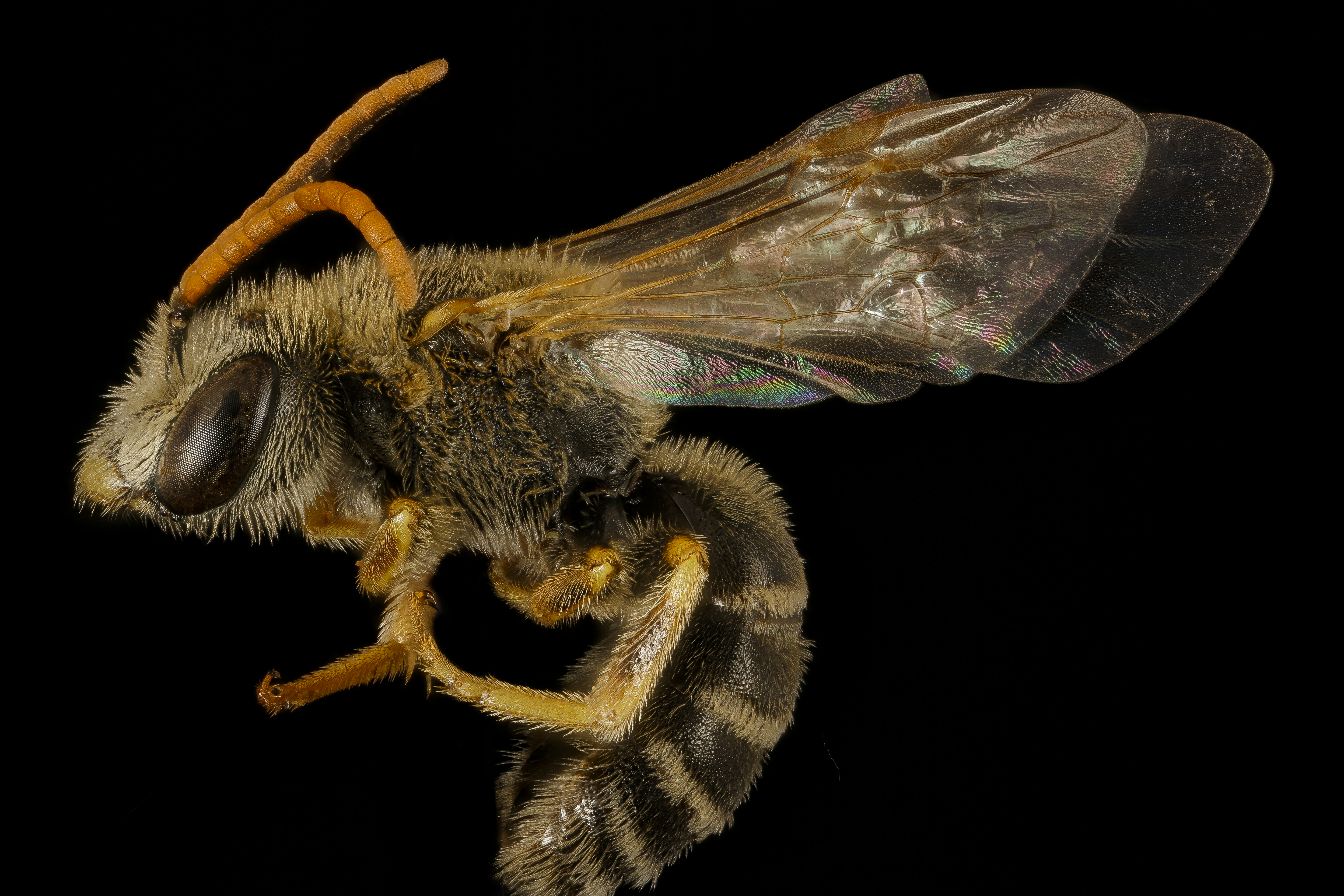 Halictus ligatus. One of the crow bees of the North America. It occurs almost everywhere and remains common in urban and disturbed sites, where it is just fine with gathering pollen from alien weeds and flower beds. These bees occur throughout the year living in a semi-social state where daughters help mothers and more than one generation occurs within the year. Look in your garden and it will be there. The female in this series is covered in what is likely pumpkin pollen. Kelly Graninger took the stack of photos and Laura Russo collected the bees near State College, PA. 00:46, 1 July 2017 (UTC)00:46, 1 July 2017 (UTC) 0 00:46, 1 July 2017 (UTC)00:46, 1 July 2017 (UTC) All photographs are public domain, feel free to download and use as you wish. Photography Information: Canon Mark II 5D, Zerene Stacker, Stackshot Sled, 65mm Canon MP-E 1-5X macro lens, Twin Macro Flash in Styrofoam Cooler, F5.0, ISO 100, Shutter Speed 200 Beauty is truth, truth beauty - that is all Ye know on earth and all ye need to know " Ode on a Grecian Urn" John Keats You can also follow us on Instagram - account = USGSBIML Want some Useful Links to the Techniques We Use? Well now here you go Citizen: Art Photo Book: Bees: An Up-Close Look at Pollinators Around the World Free Field Guide to Bee Genera of Maryland Basic USGSBIML set up: USGSBIML Photoshopping Technique: Note that we now have added using the burn tool at 50% opacity set to shadows to clean up the halos that bleed into the black background from "hot" color sections of the picture. PDF of Basic USGSBIML Photography Set Up: ftp://ftpext.usgs.gov/pub/er/md/laurel/Droege/How%20to%20Take%20MacroPhotographs%20of%20Insects%20BIML%20Lab2.pdf Google Hangout Demonstration of Techniques: or Excellent Technical Form on Stacking: Contact information: Sam Droege 301 497 5840